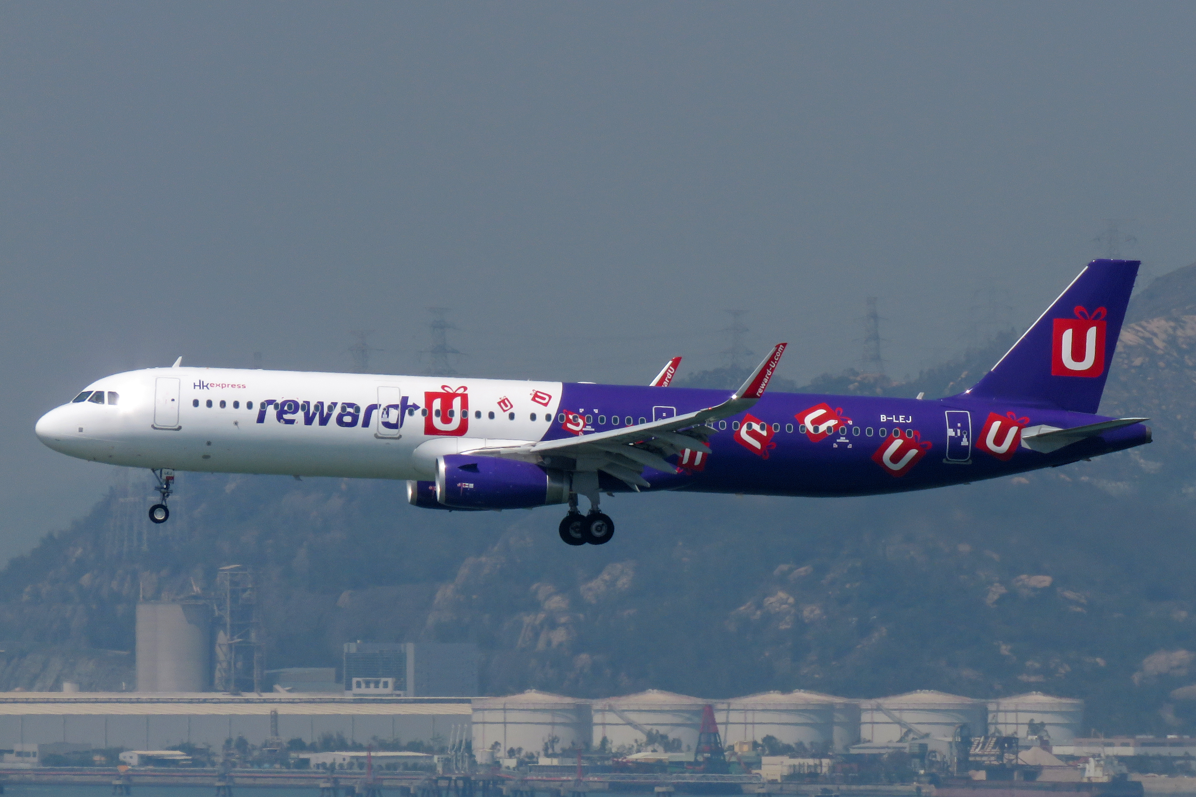 HKE813D from Ishigaki. Compensation for UO813?